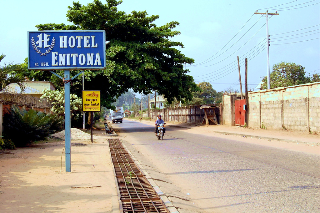 Aba, Abia state